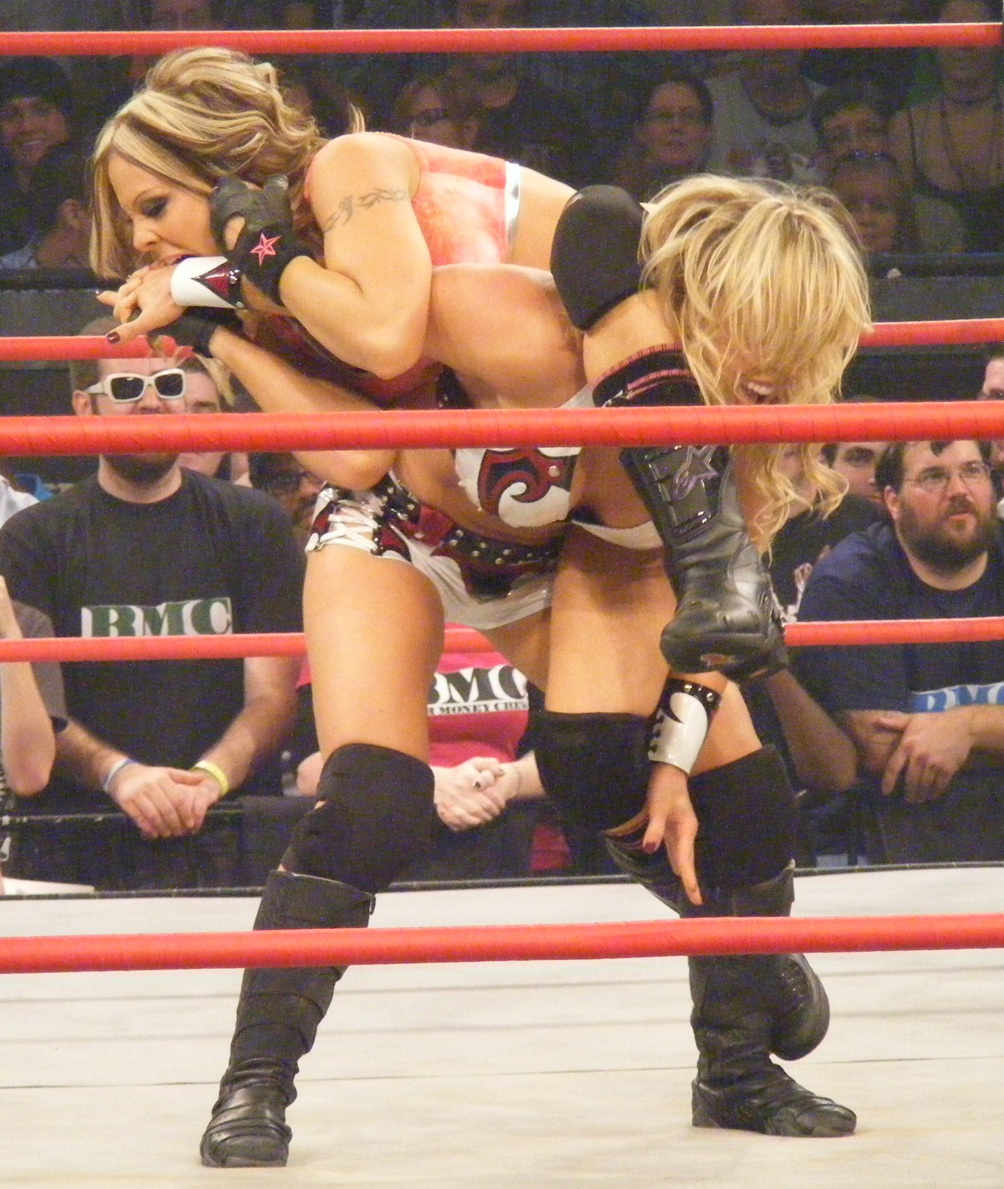 Velvet Sky applies an Octopus Hold on Taylor Wilde and bites her hand in the process. Turning Point 2009, TNA Knockouts Tag Team Championship Match.